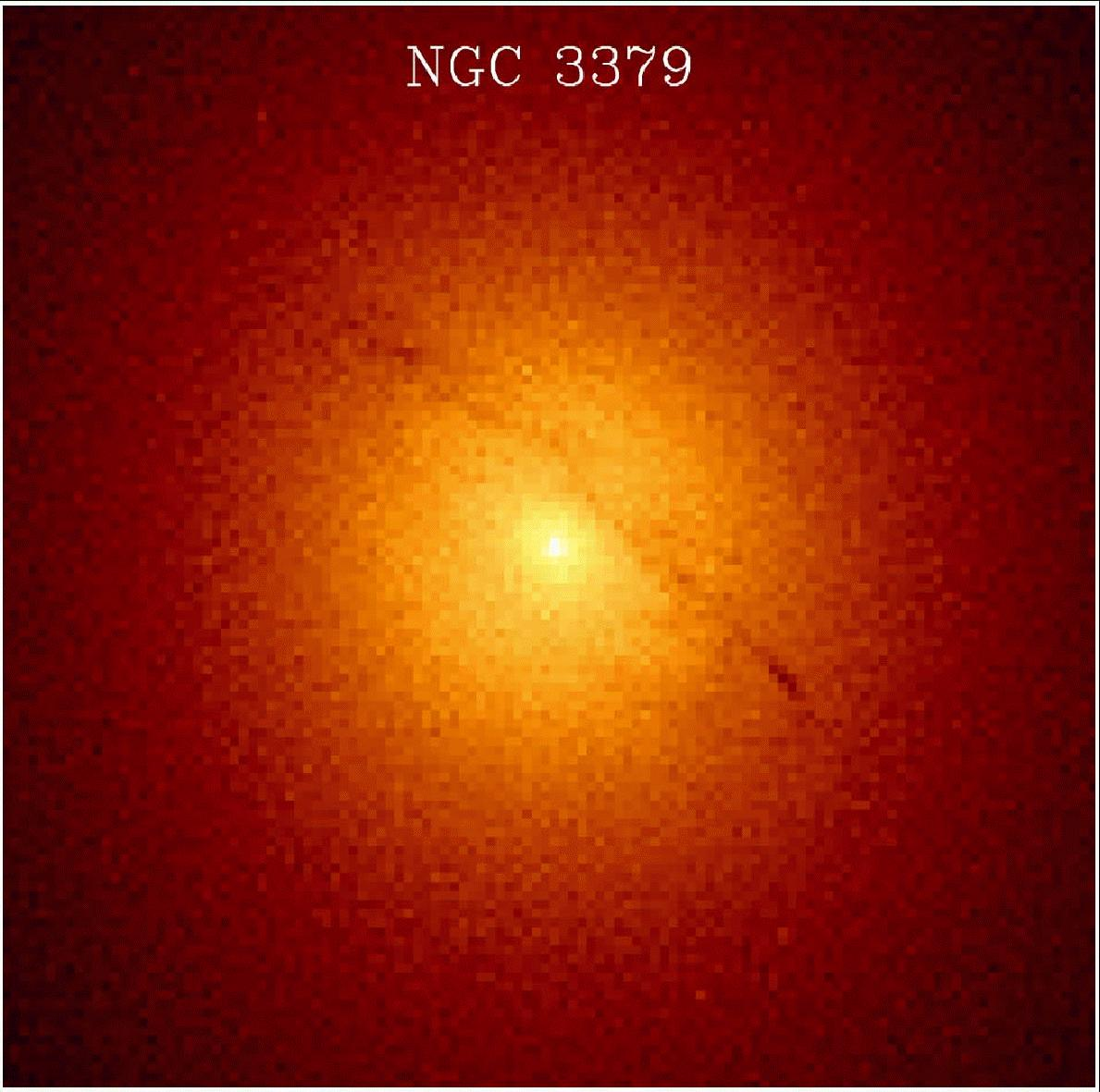 Messier 105